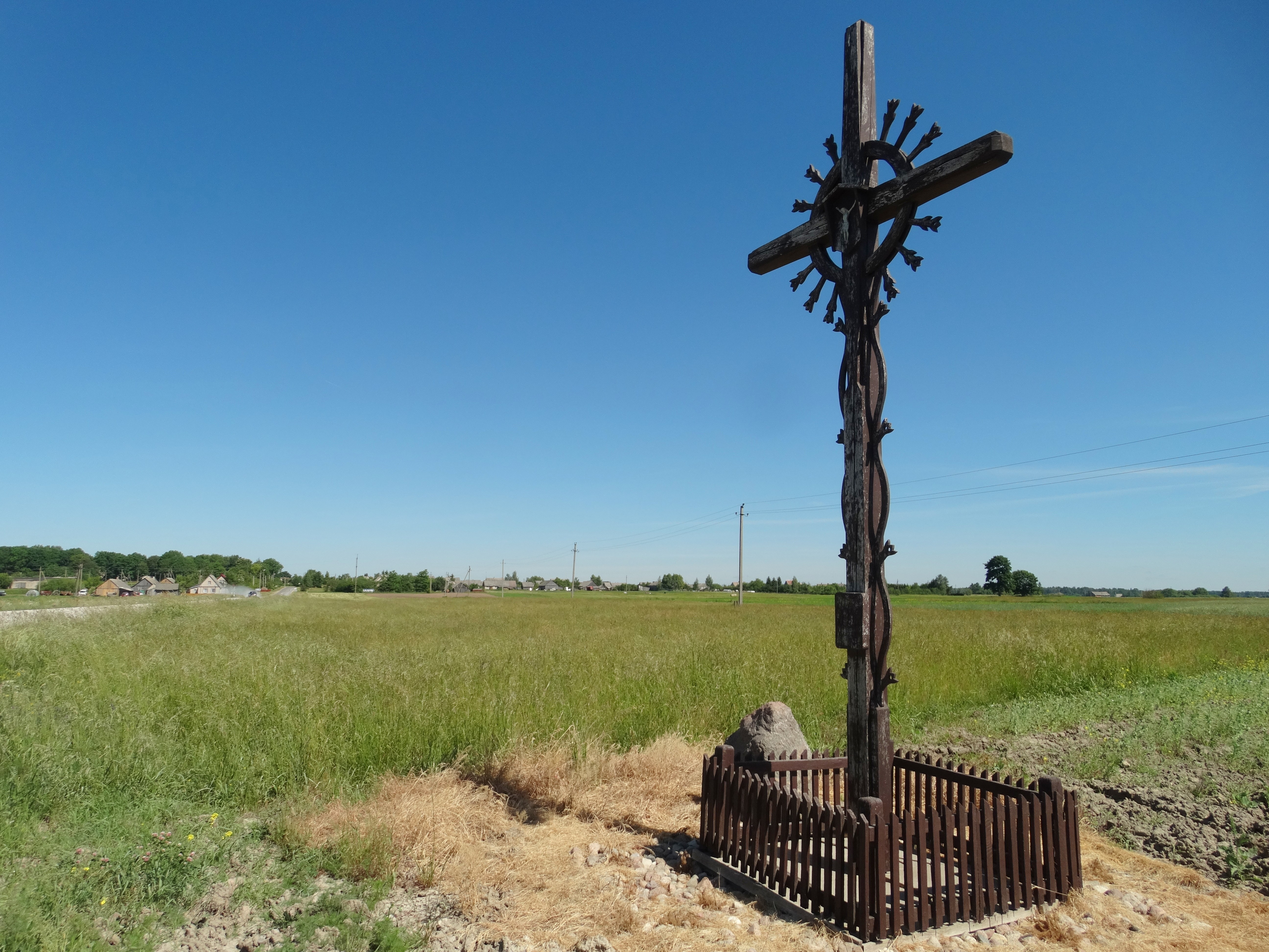 Wayside cross in Skirvainiai, Raseiniai District, Lithuania